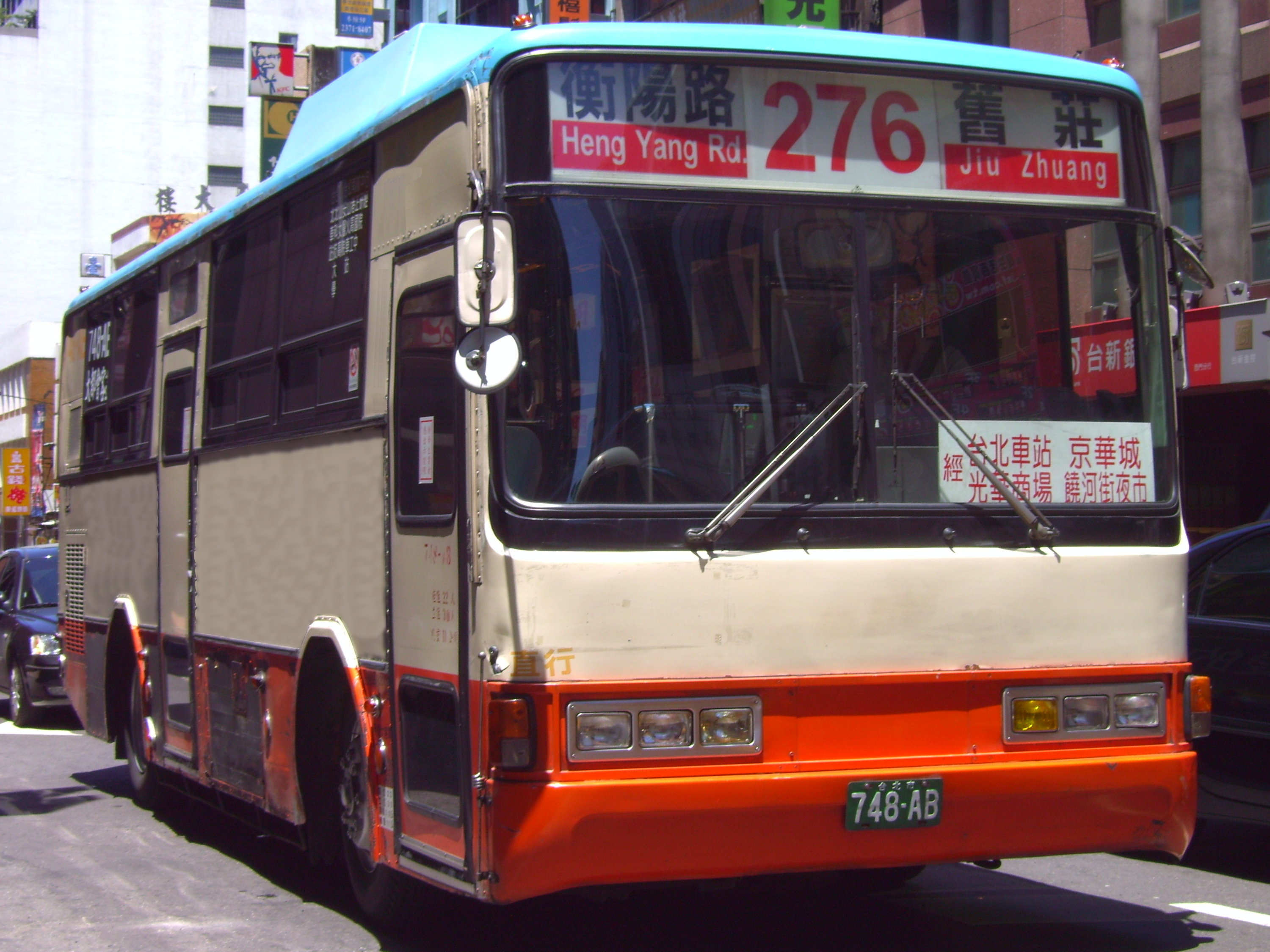 A Fuso RK chassied bus is operated by Metropolitan Transport Co., Ltd.